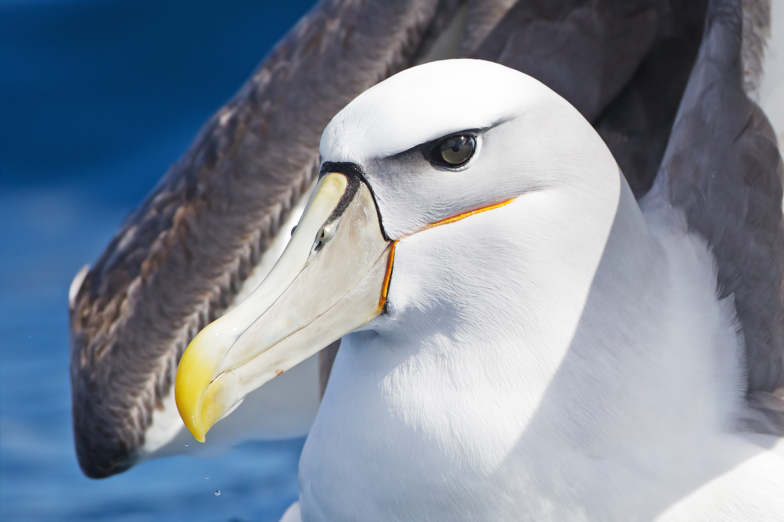 Shy Albatross (Thalassarche cauta) portrait, East of the Tasman Peninsula, Tasmania, Australia